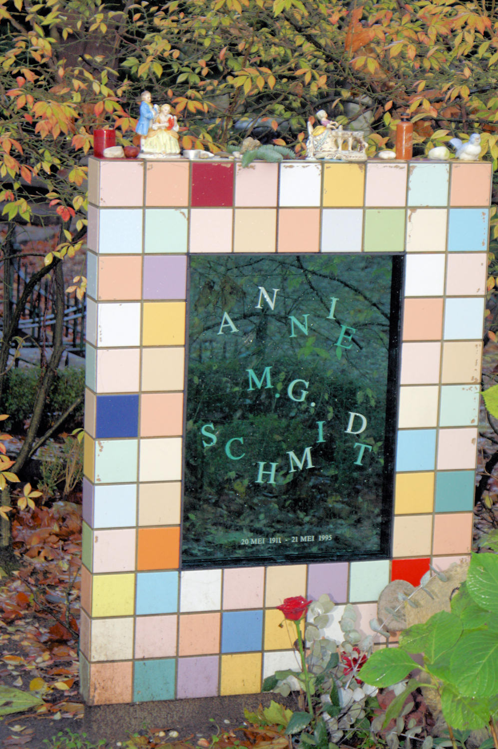 Amsterdam